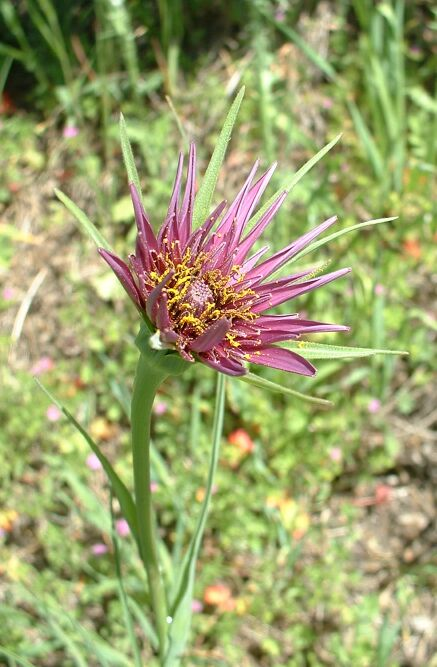 Purple Salsify or Oyster Plant, Tragopogon porrifolius. Identified by comparison with images in the CalPhotos database.